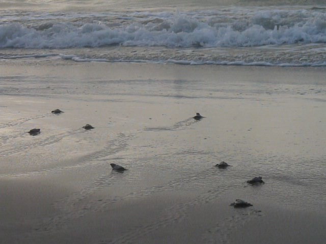 Kemp's Ridley sea turtle release at PAIS